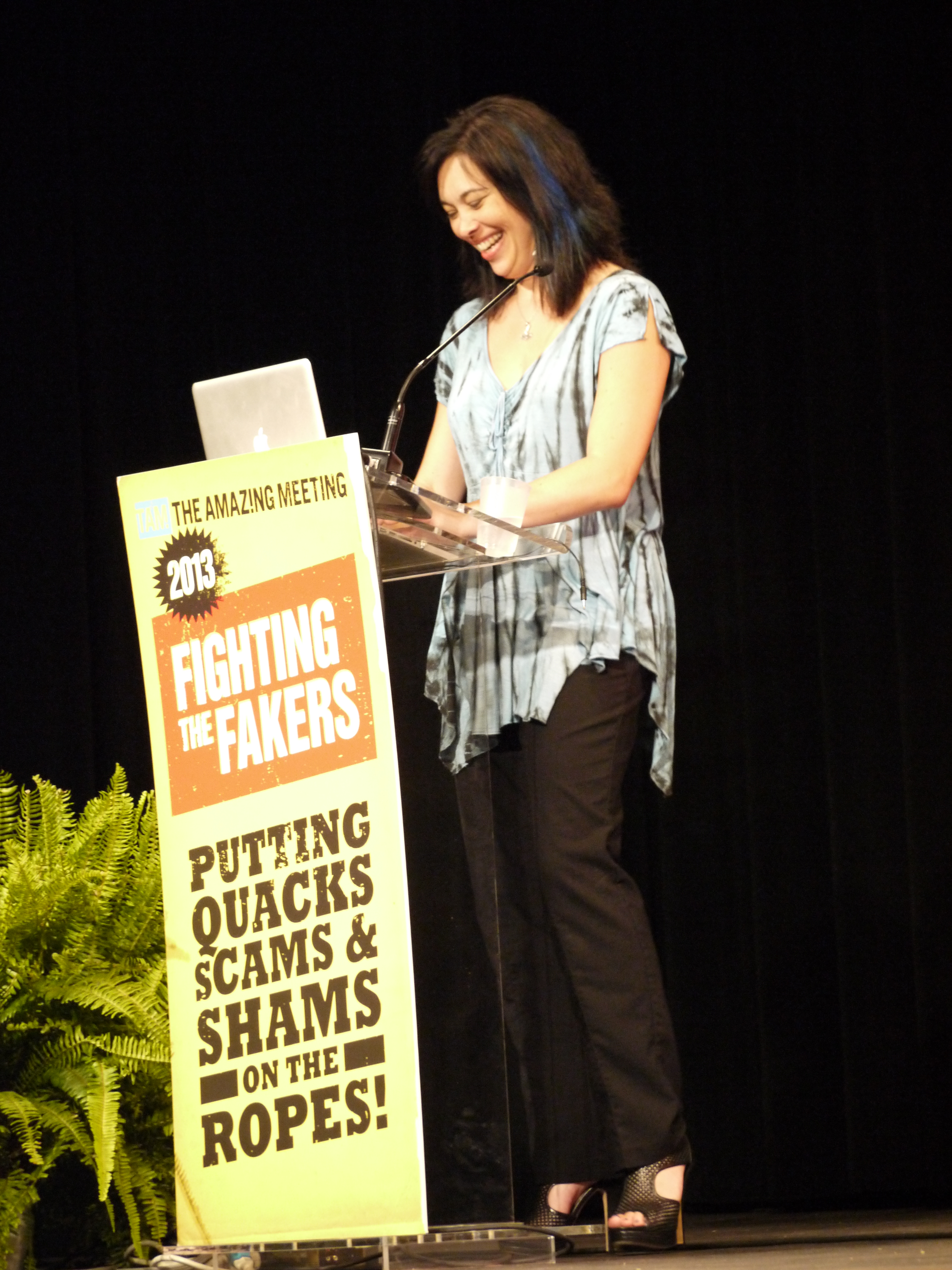 This image is from Sharon Hill's talk titled The Honest Broker of Doubtful News, given at The Amaz!ng Meeting 2013 in Las Vegas.